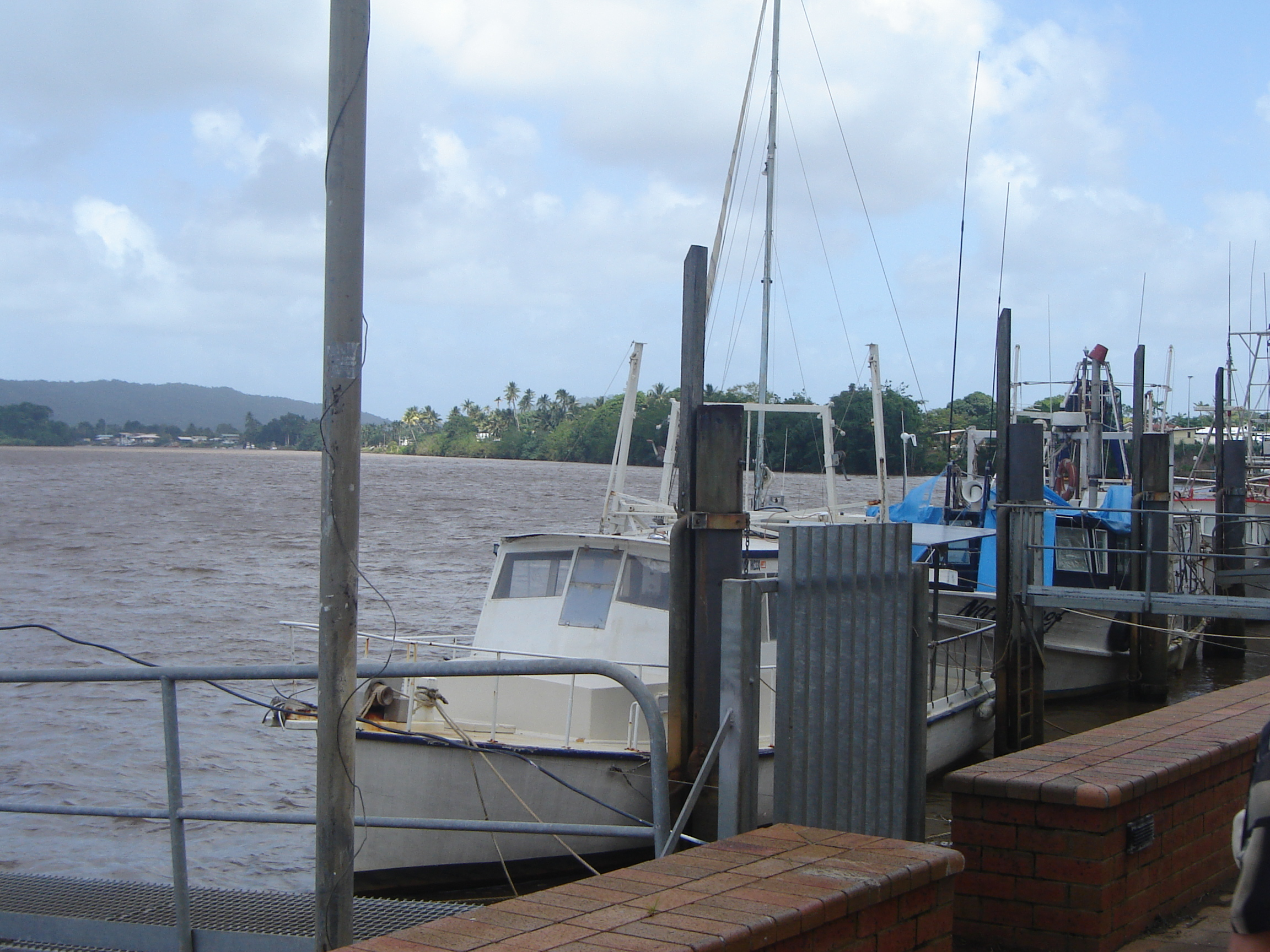 Johnstone River flowing through Innisfail. Photo taken by Frances76.